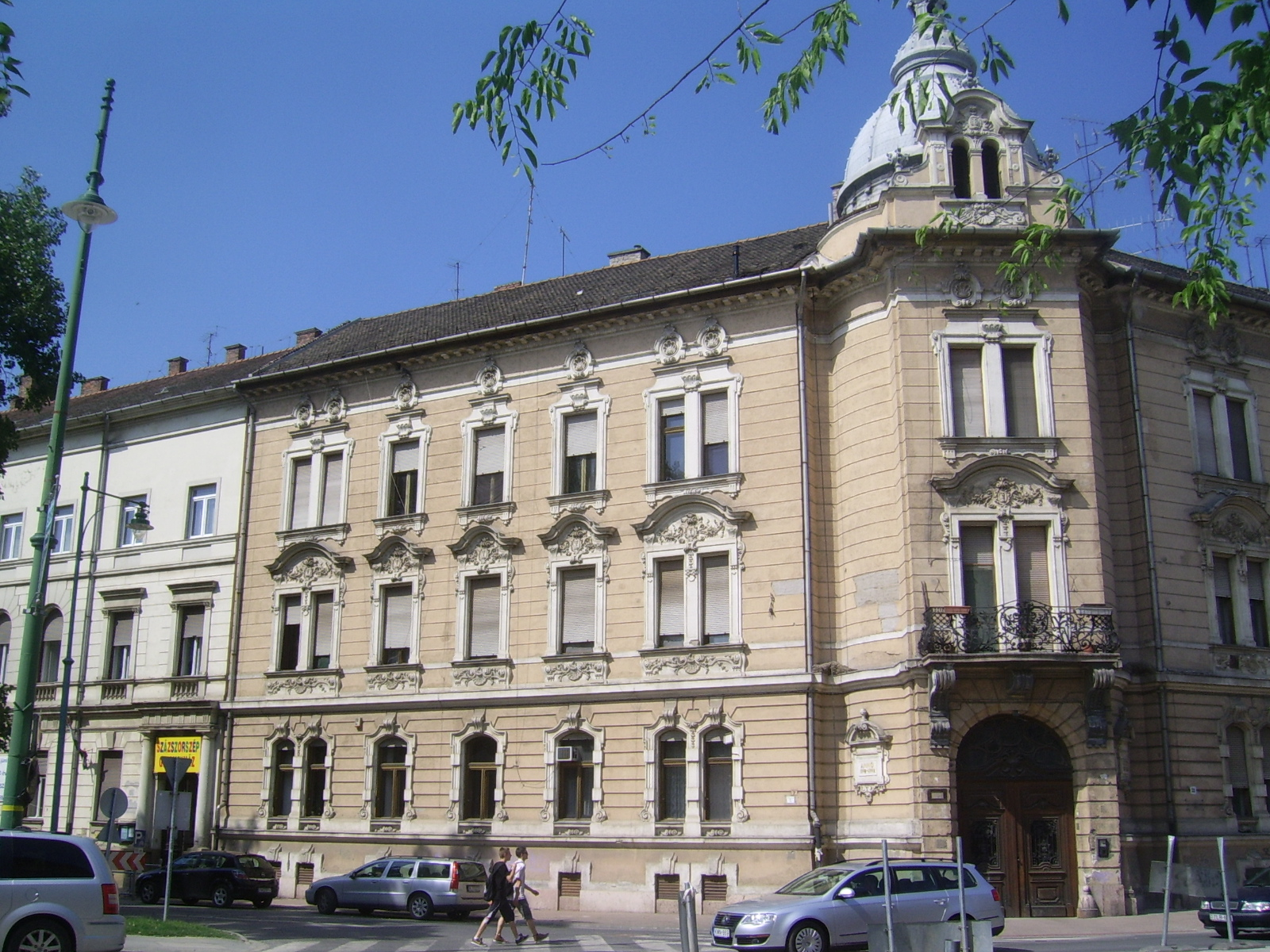 Facade of Tóth-palota in Szeged